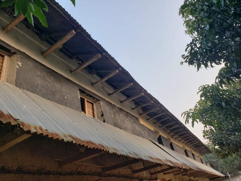 108-room mud house. It is located in naogaon district.